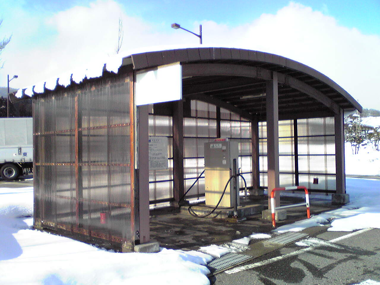 Hot spring water station at Michinoeki Asahi in Murakami City, Niigata Prefecture, Japan